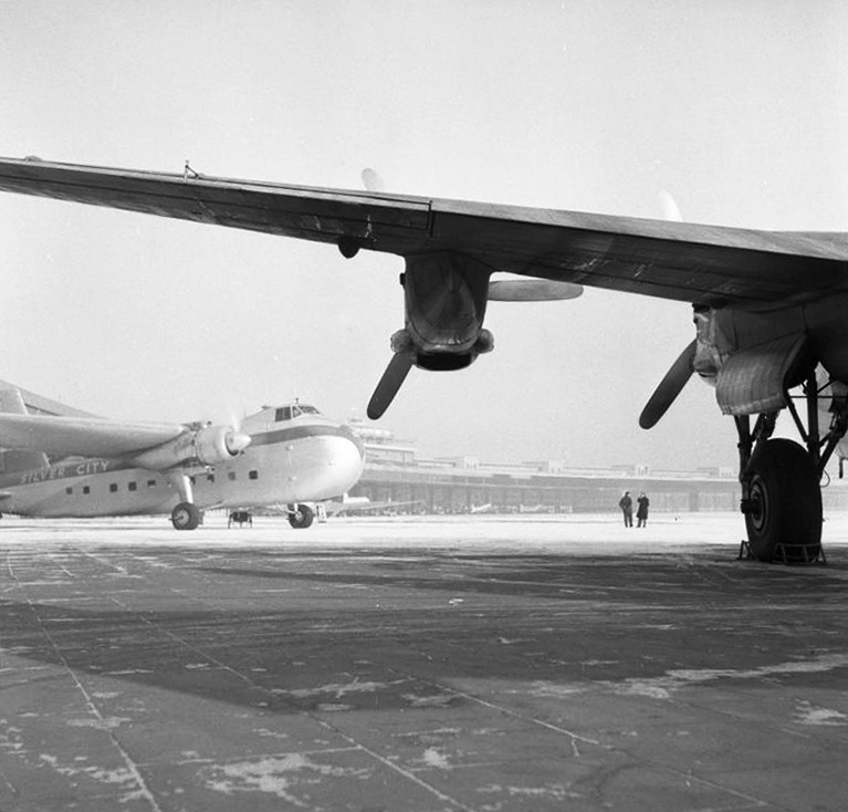 Flughafen Tempelhof Information added by Wikimedia users.Der Flughafen Berlin-Tempelhof mit Bristol Freighter der britischen Fluglinie Silver City Airways, unt Avro York, am 27. Januar 1954.